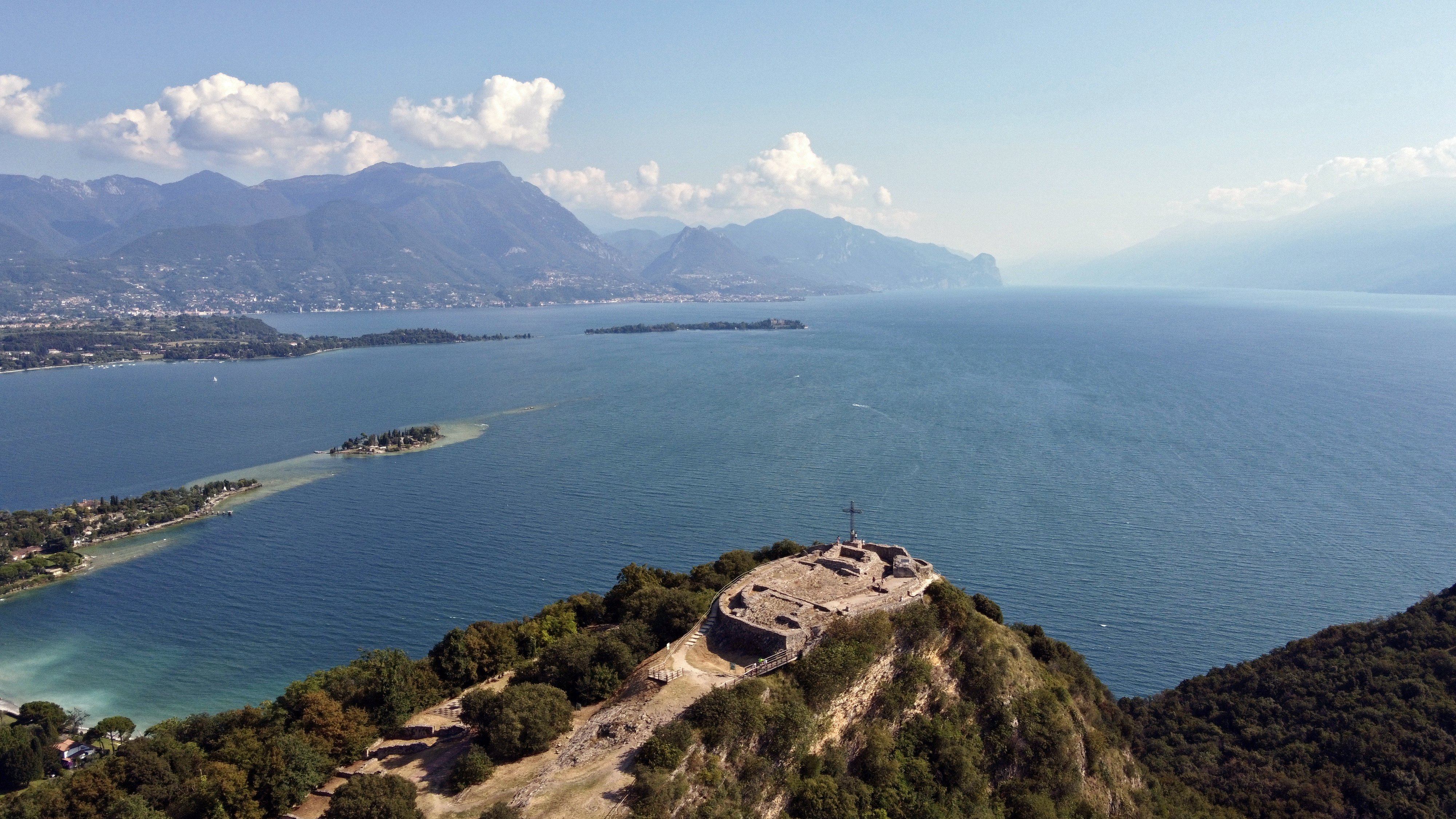 The Rocca of Manerba del Garda and the Isola di San Biagio known also as Isola dei Conigli island.